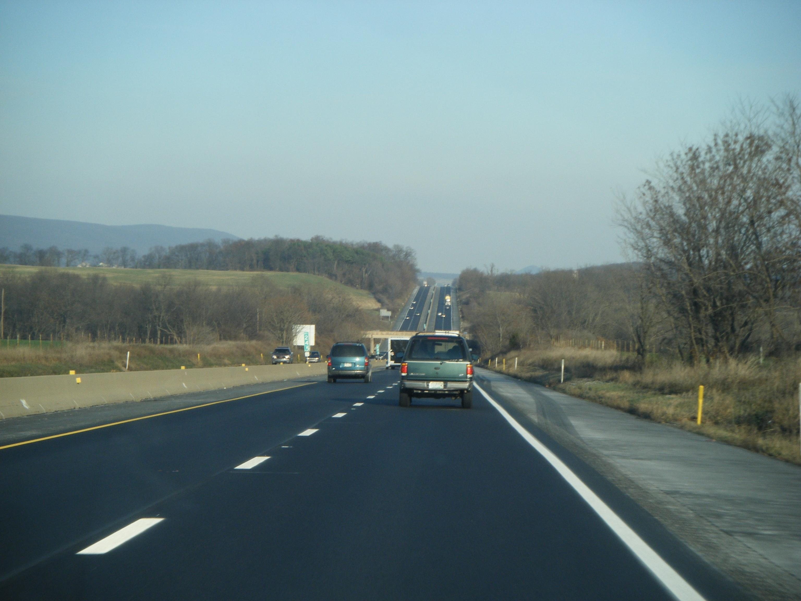 Eastbound Interstate 78/U.S. Route 22 at mile marker 24.5 in Berks County, Pennsylvania.